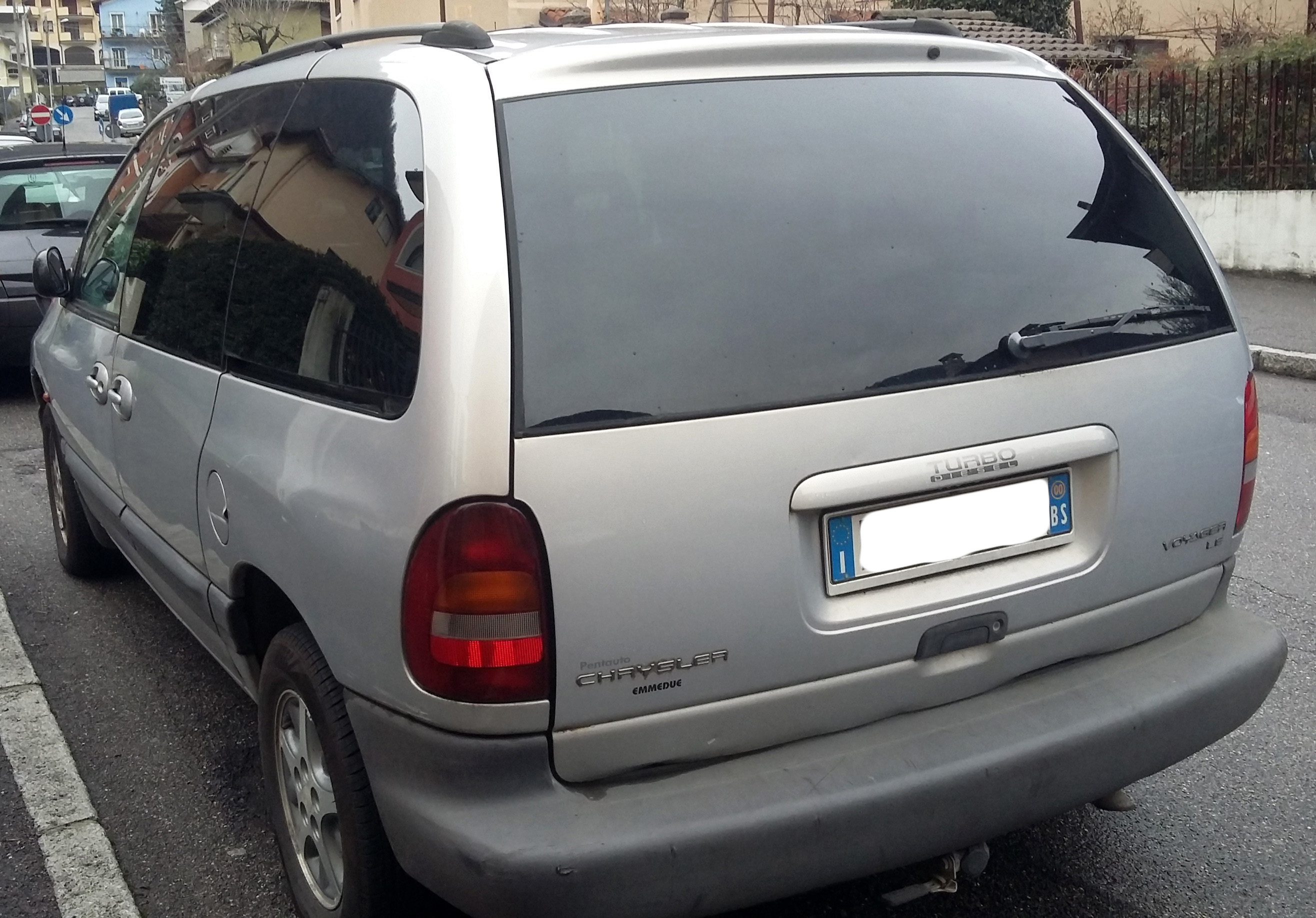 1996-2000 Chrysler Voyager, rear